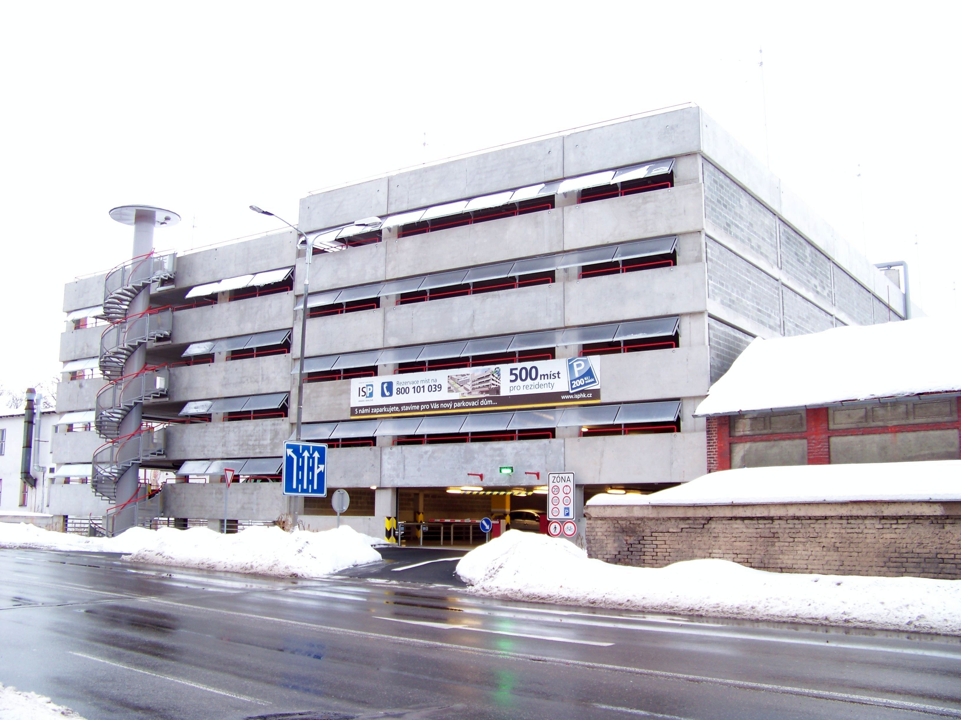 Hradec Králové, the Czech Republic. Resslova Street, parking building.